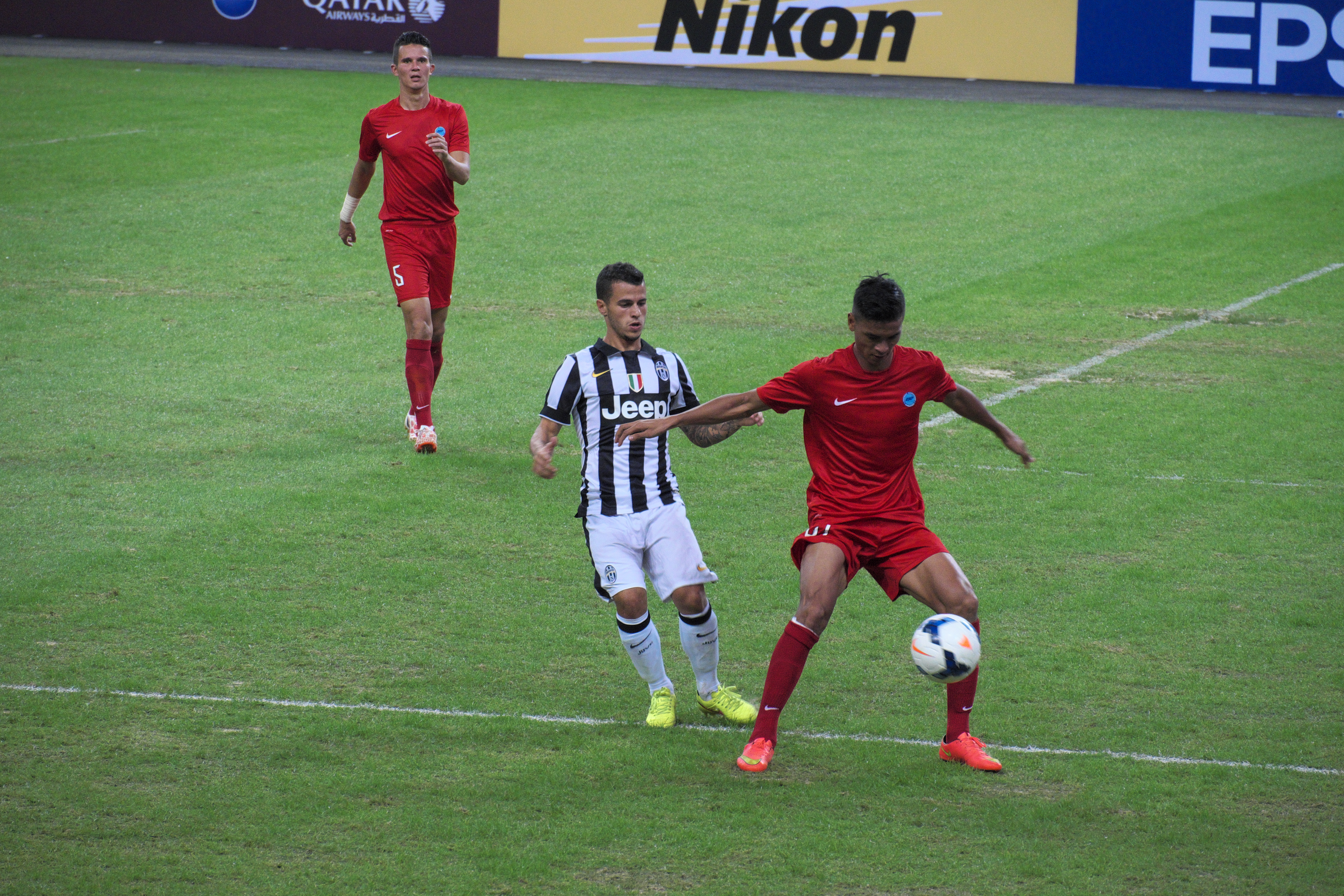 Giovinco playing in a pre-season friendly against Singapore in August 2014.